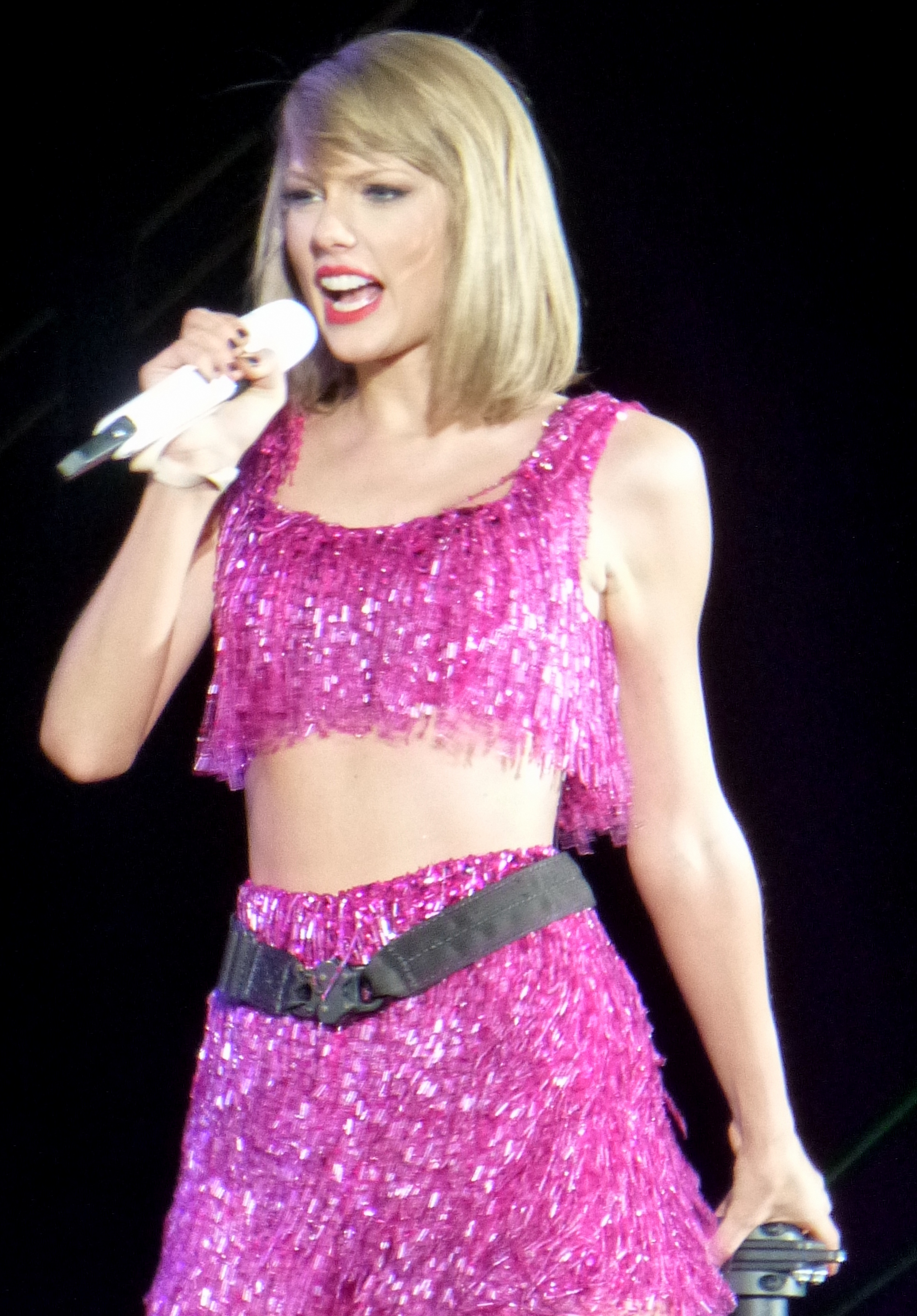 Taylor Swift 1989 Tour at Ford Field in Detroit, 5/30/15